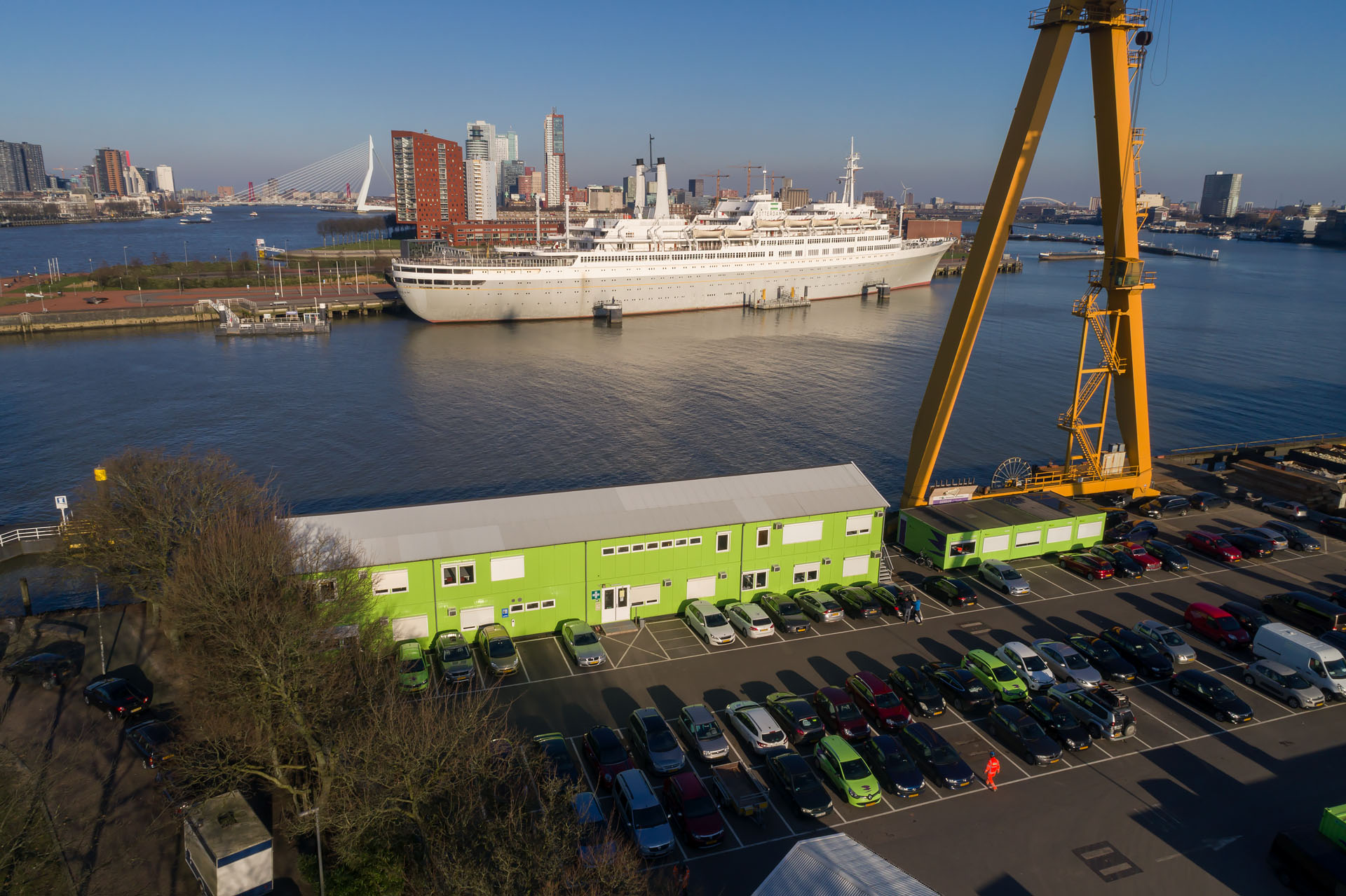 TBI-project Maastunnel te Rotterdam door TBI-ondernemingen Mobilis, Nico de Bont en Croonwolter&dros.